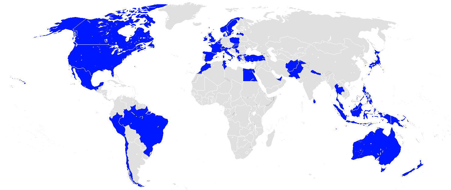 Map of FN Minimi operators.